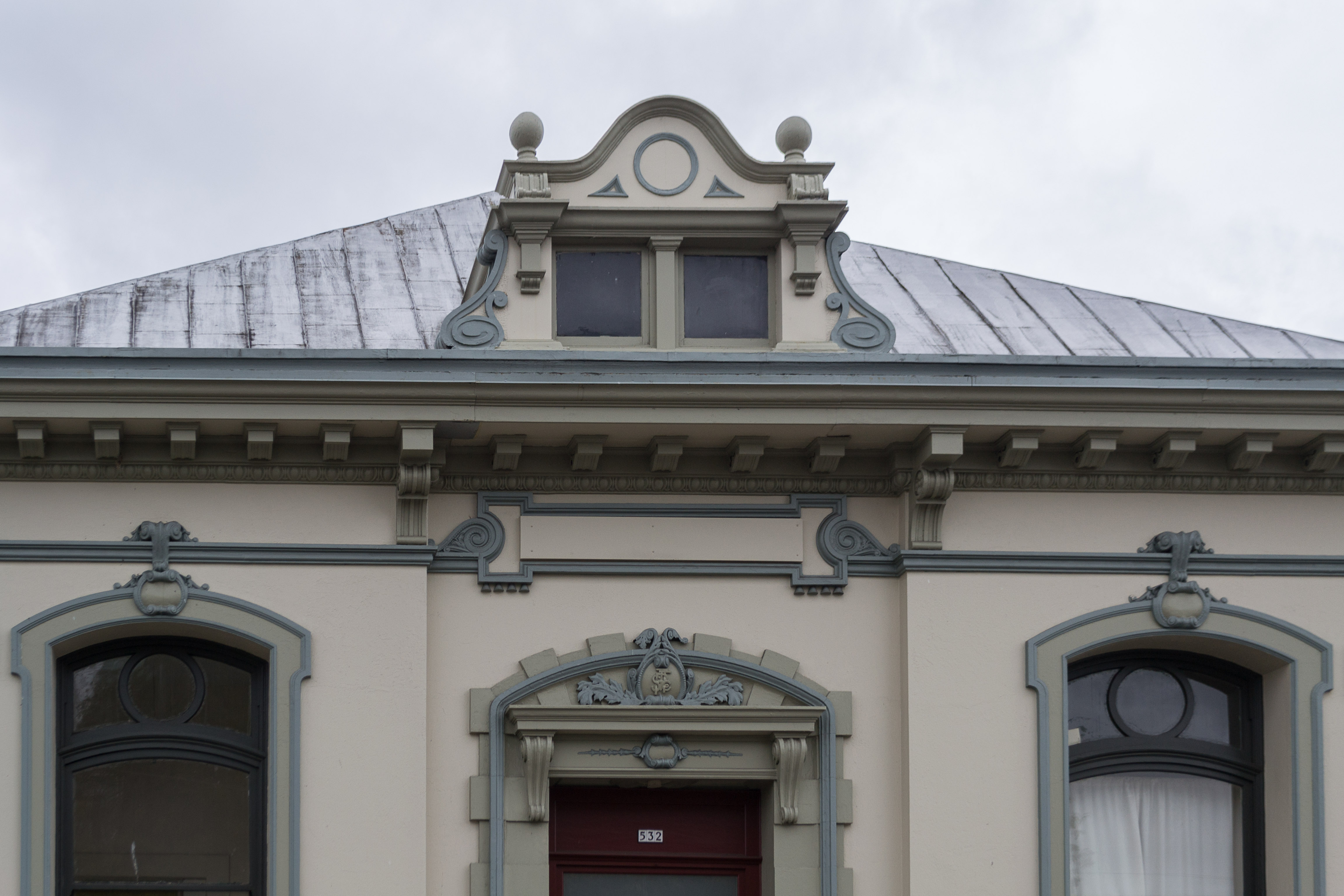 A dutch gable window and hip roof above a bracketed cornice and elaborate lintel, and flattened-arch lintel label molding above double-hung sash windows, and a front entrance with a scrolled label molding above an arched, quoined transom are featured in the Pacific States Telephone Building at the northeast boundary of the East Portland Grand Avenue Historic District.